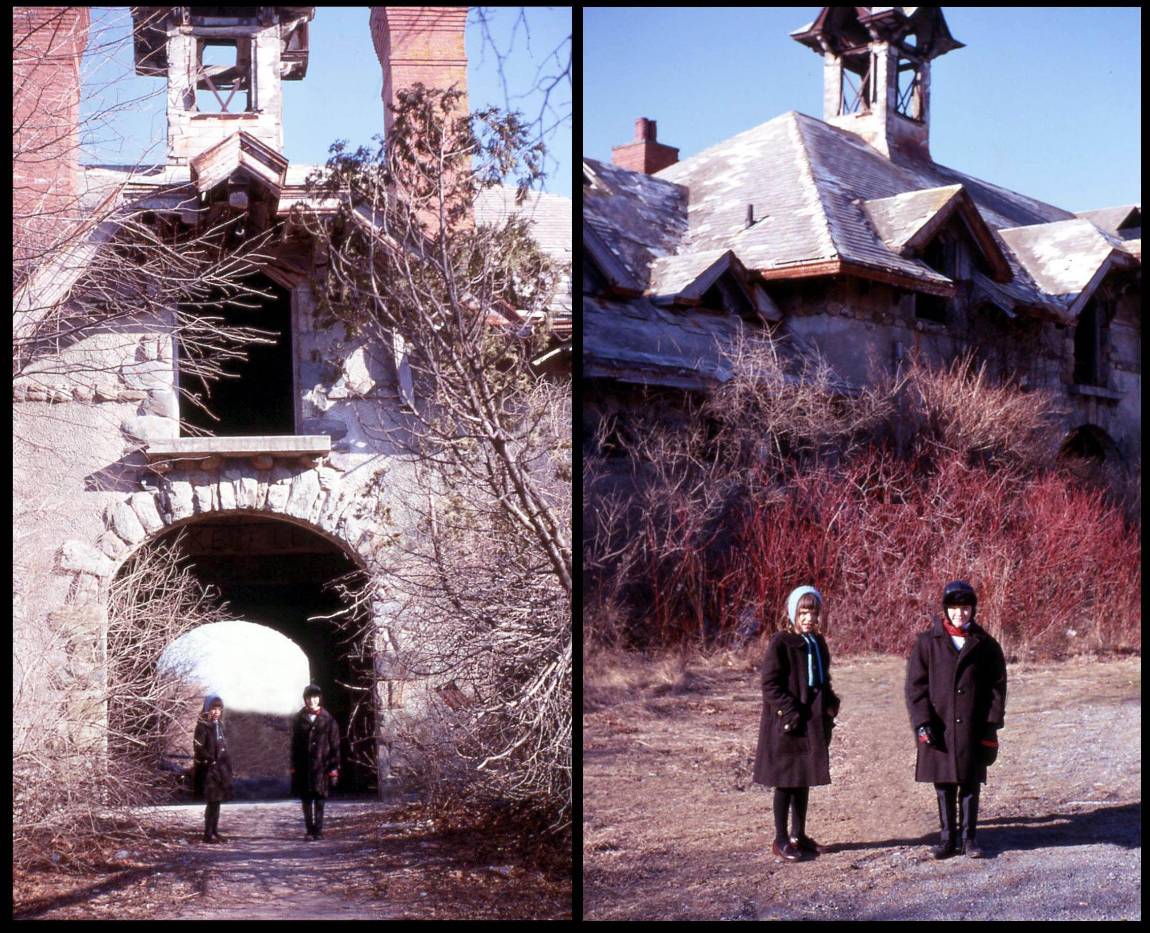 Former Stable at Brenton Point State Park, Newport, Rhode Island, USA